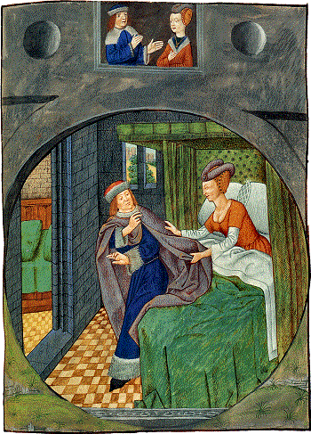 Joseph and Potiphar